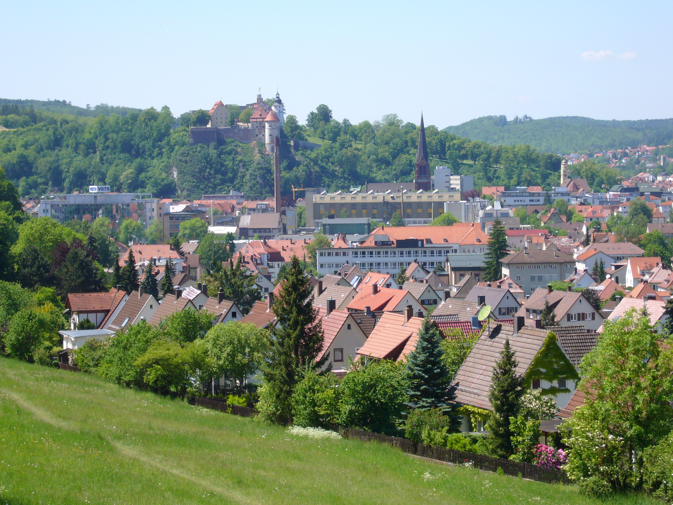 View over Heidenheim towars the castle Helfenstein